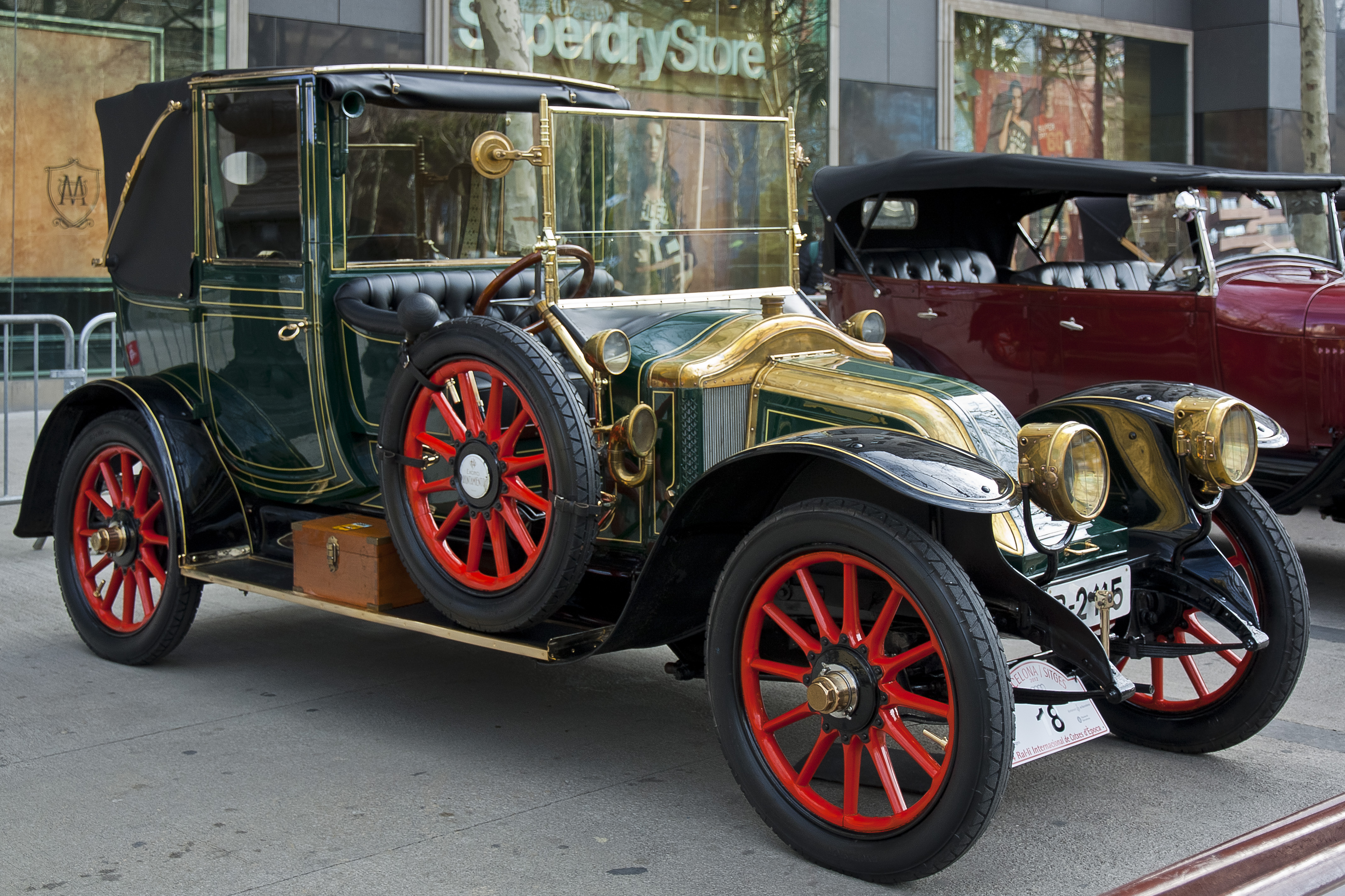 1914 Renault Type EF at the 2012 International Barcelona-Sitges Vintage Car Rally.